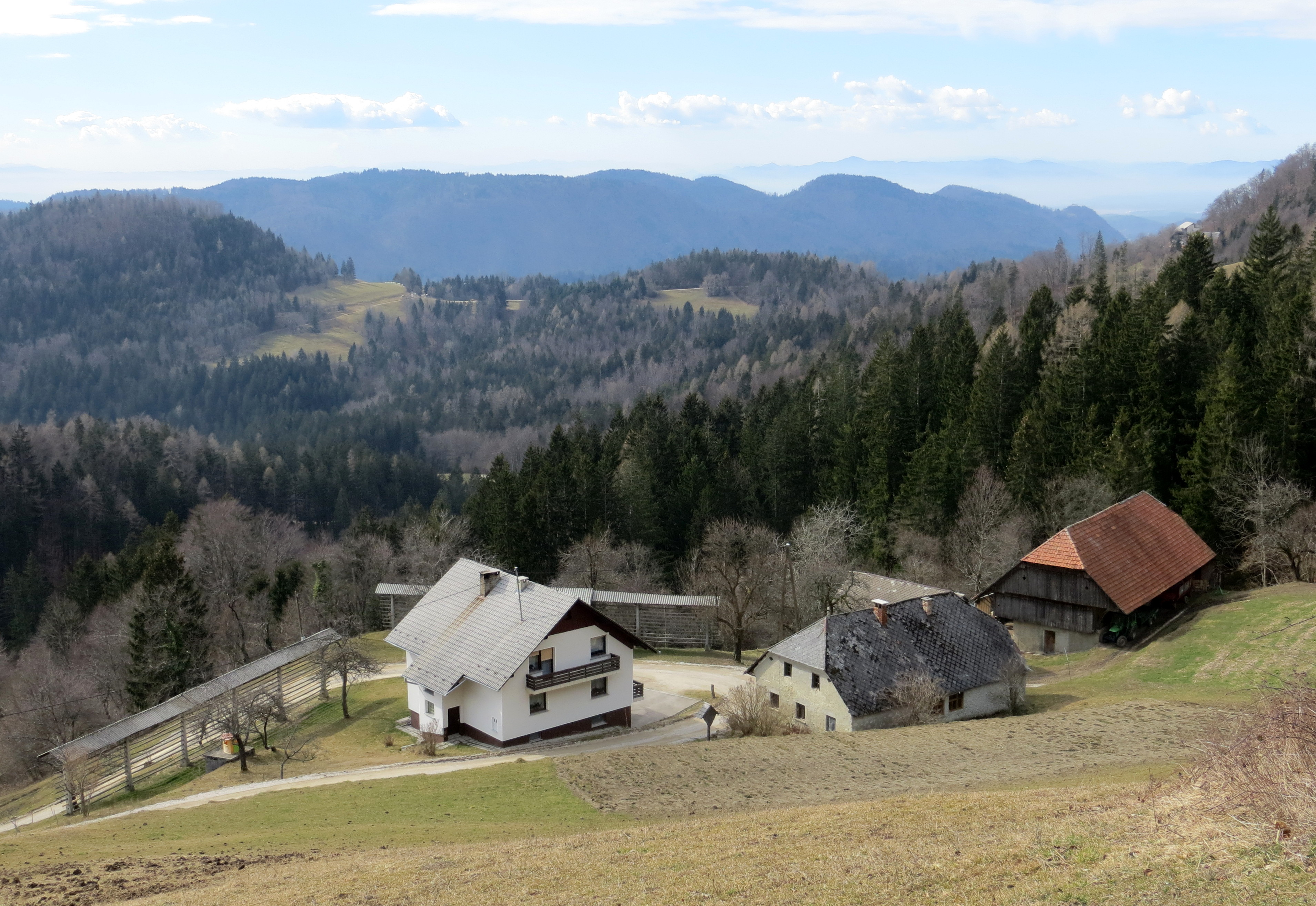 The hamlet of Šmonkar in Bela Peč, Municipality of Kamnik, Slovenia